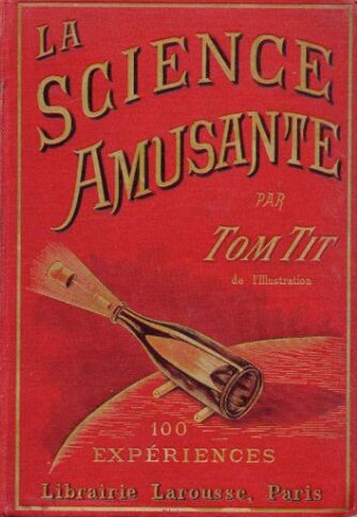 Book cover of La Science amusante, par Tom Tit [Arthur Good], de L'Illustration 100 expériences Librairie Larousse, Paris.